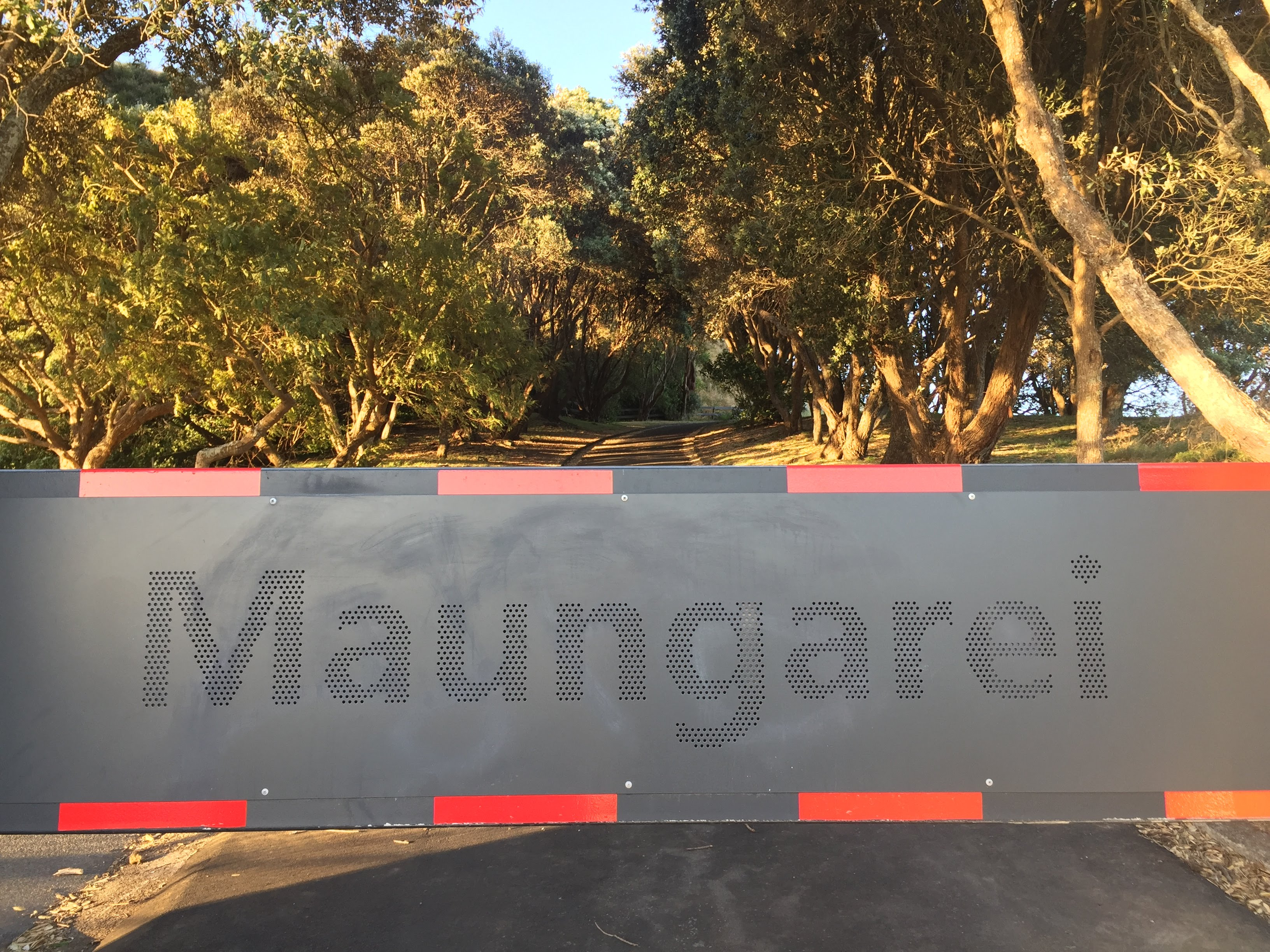 Barrier installed in 2018 at base of access road so that the summit became pedestrian-only.